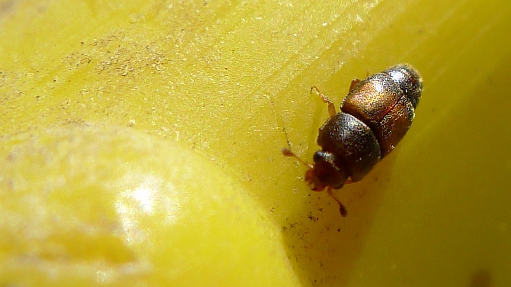 A Cornsap Beetle, possibly Carpophilus dimidiatus. Hanging around the compost bin, Como NSW Australia, July 2012.